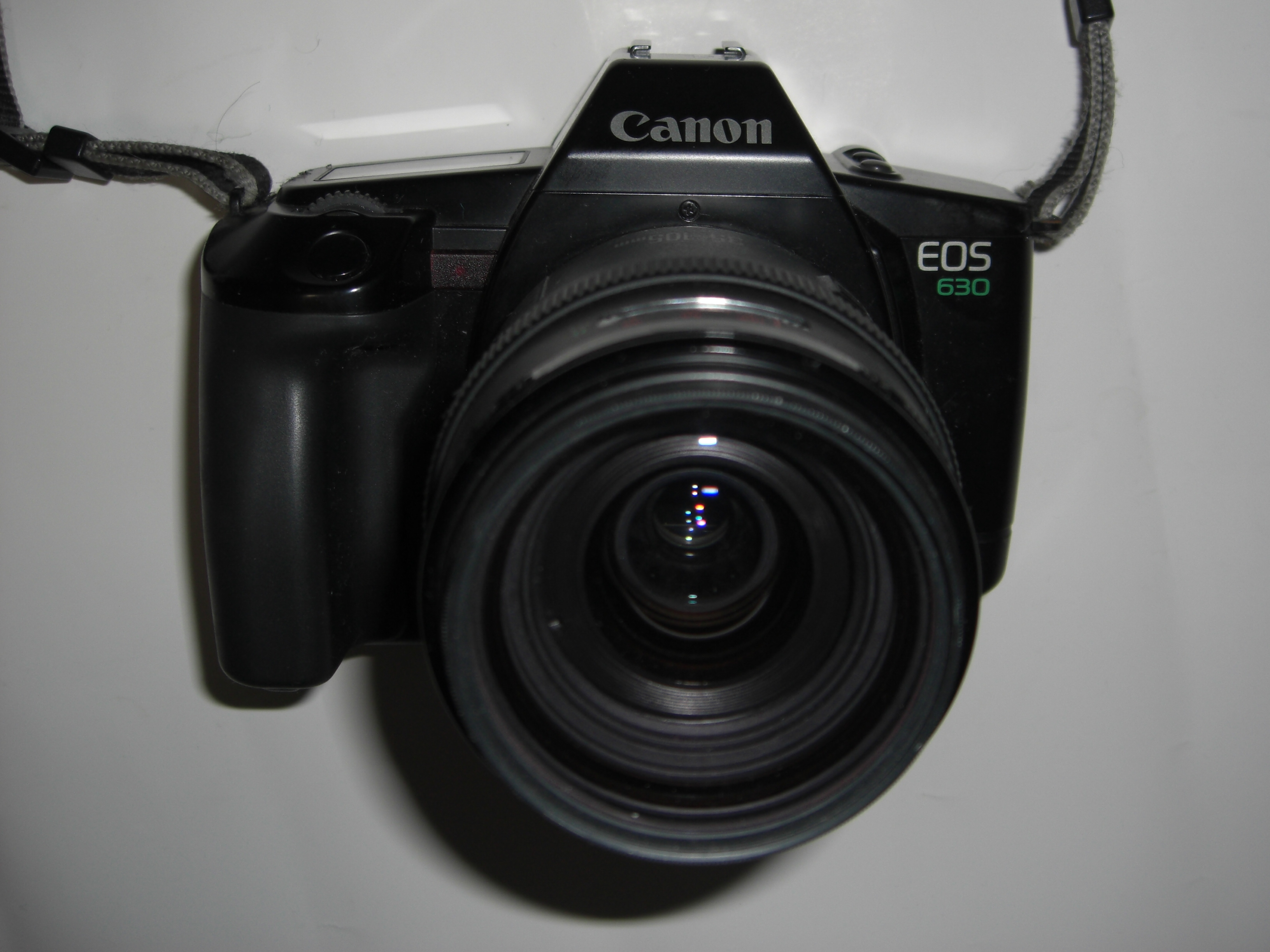 Canon EOS 630